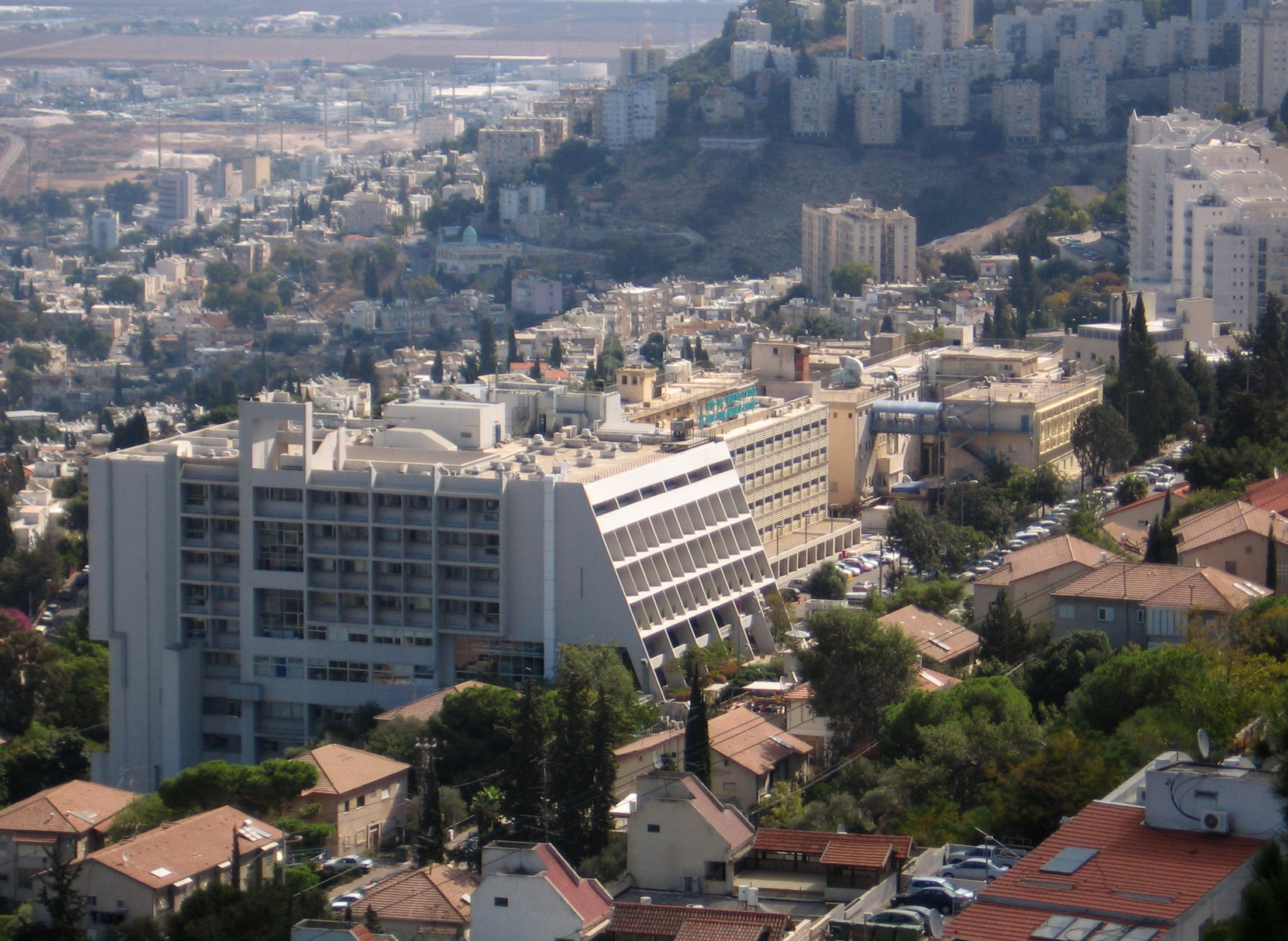 Bnei Zion hospital in Haifa.